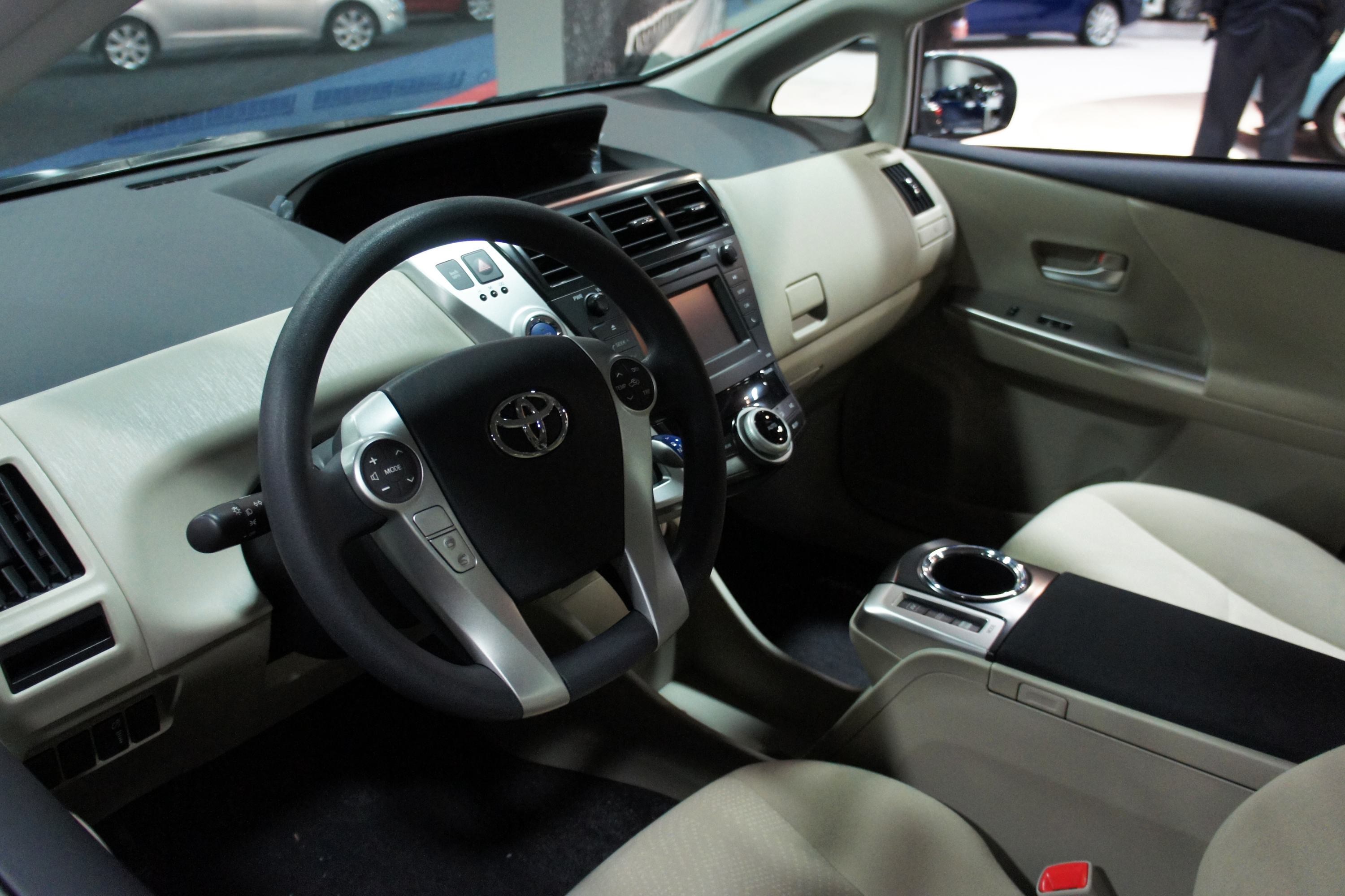 Interior of 2012 Toyota Prius v at the 2012 Washington Auto Show (D.C.)